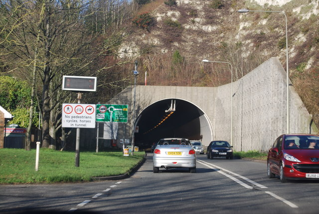 Culfail Tunnel